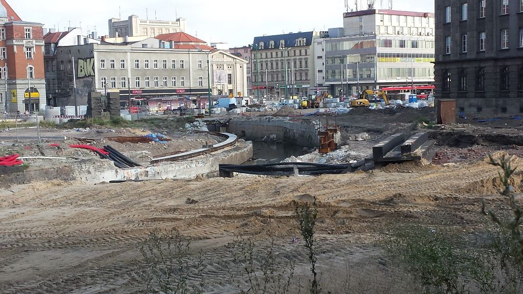 Rawa river under the market square